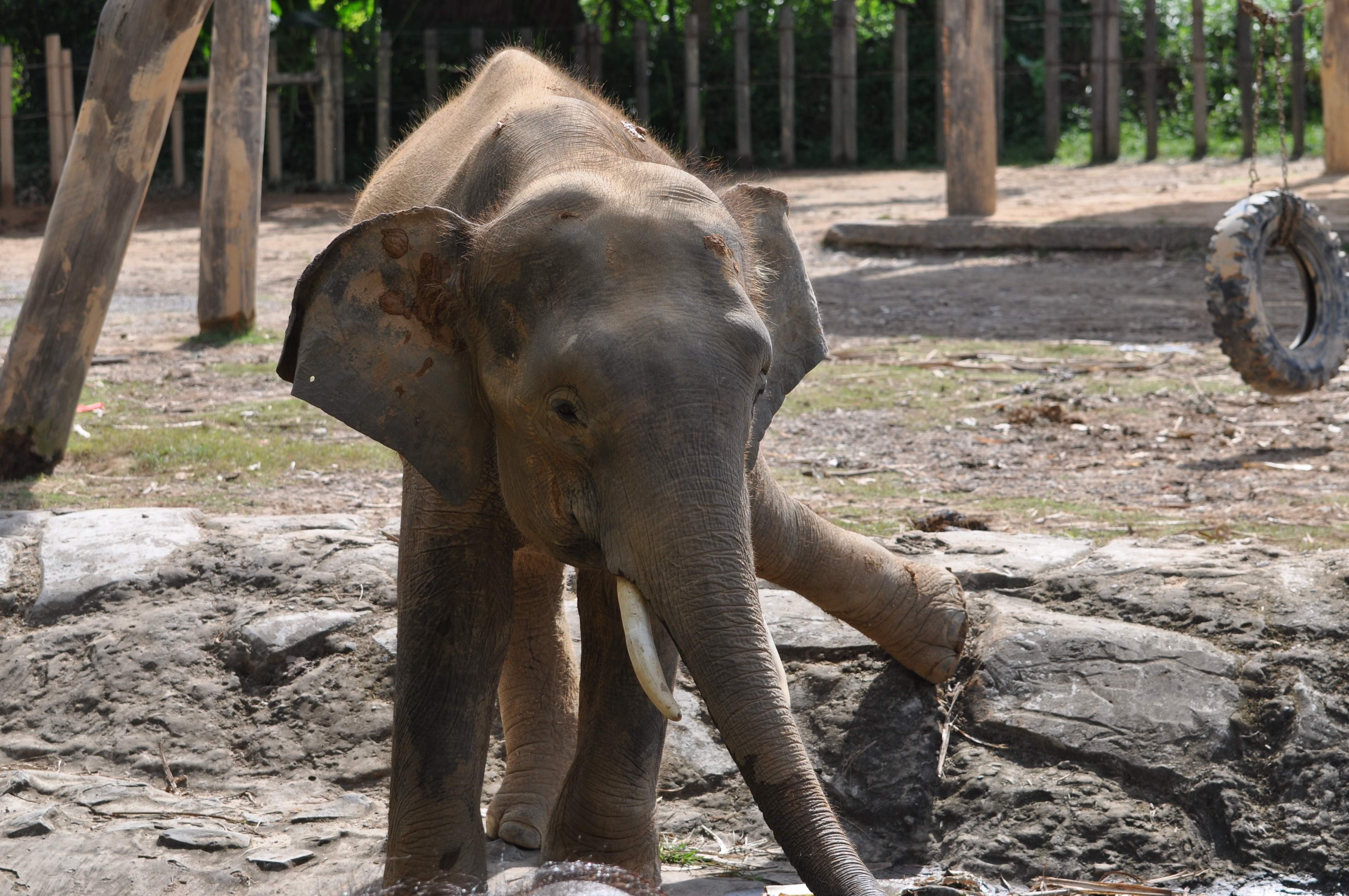 Just like humans test the waters with one feet, this fellow was doing so with i strunk. He seemed rather reluctant to get into the water, as the rather hesitant post of his hind leg shows. Today, the Borneo elephant is considered to be an animal that is in immediate danger of becoming extinct due to the fact that Borneo elephant populations have been declining at a critical rate. Borneo elephants are thought to be suffering primarily due to habitat loss in the form of deforestation and hunting for their ivory tusks by human poachers. (Kota Kinabalu, East Malaysia, Nov. 2013)